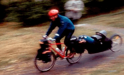 Göran Kropp leaving from Skinnarviksberget, Stockholm, Sweden, October 1995, on a six month bike trip to Mount Everest. His object was to transport himself from Stockholm to the summit of Everest and back under his own steam, carrying everything he needed for the trip and buying food along the way. The photo was taken using a Pentax LX camera, Fujichrome Professional color slide film and a 100 mm lens. This image is scanned from the original slide using an Agfa Snapscan flatbed scanner, hence the low resolution. The reason I was able to take this photo is that I was present at the press conference Göran held at Skinnarviksberget on the day of his departure. As a representative from the Swedish Climbing Association, as well as a personal friend of Göran's, I gave a short talk at the press conference, putting Göran's project into a historical perspective.